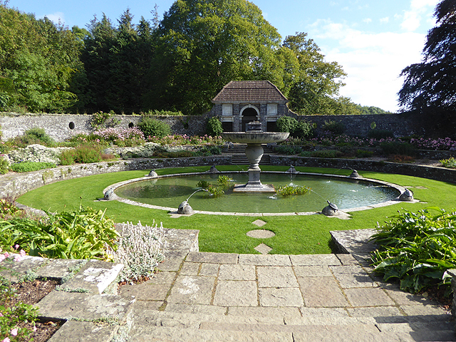 Oval Garden, Heywood Estate